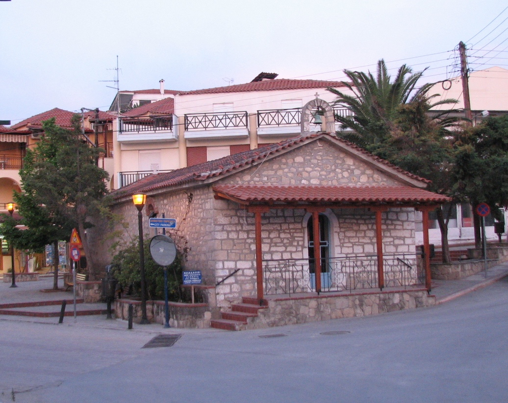 Chapel Polichrono, Greece